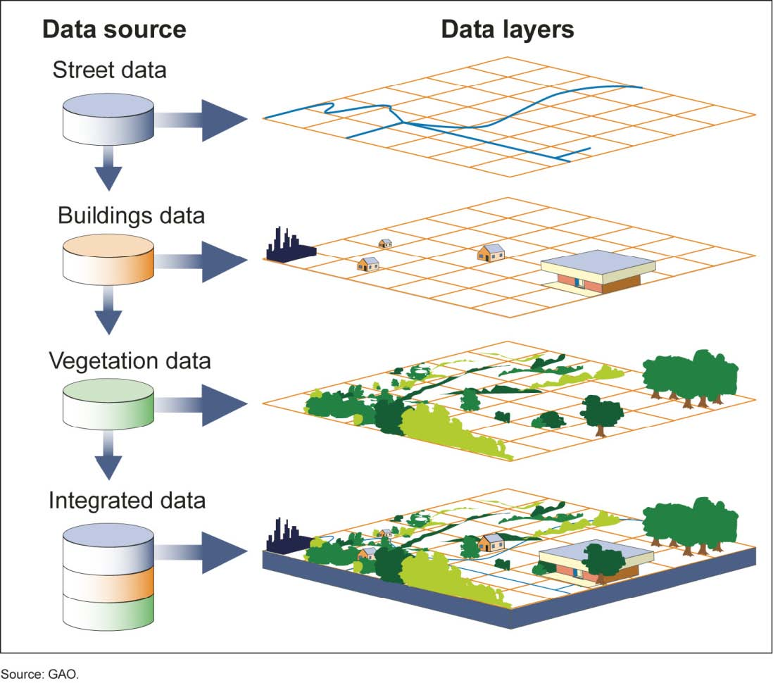 This image is excerpted from a U.S. GAO report: GEOSPATIAL INFORMATION: OMB and Agencies Need to Make Coordination a Priority to Reduce Duplication